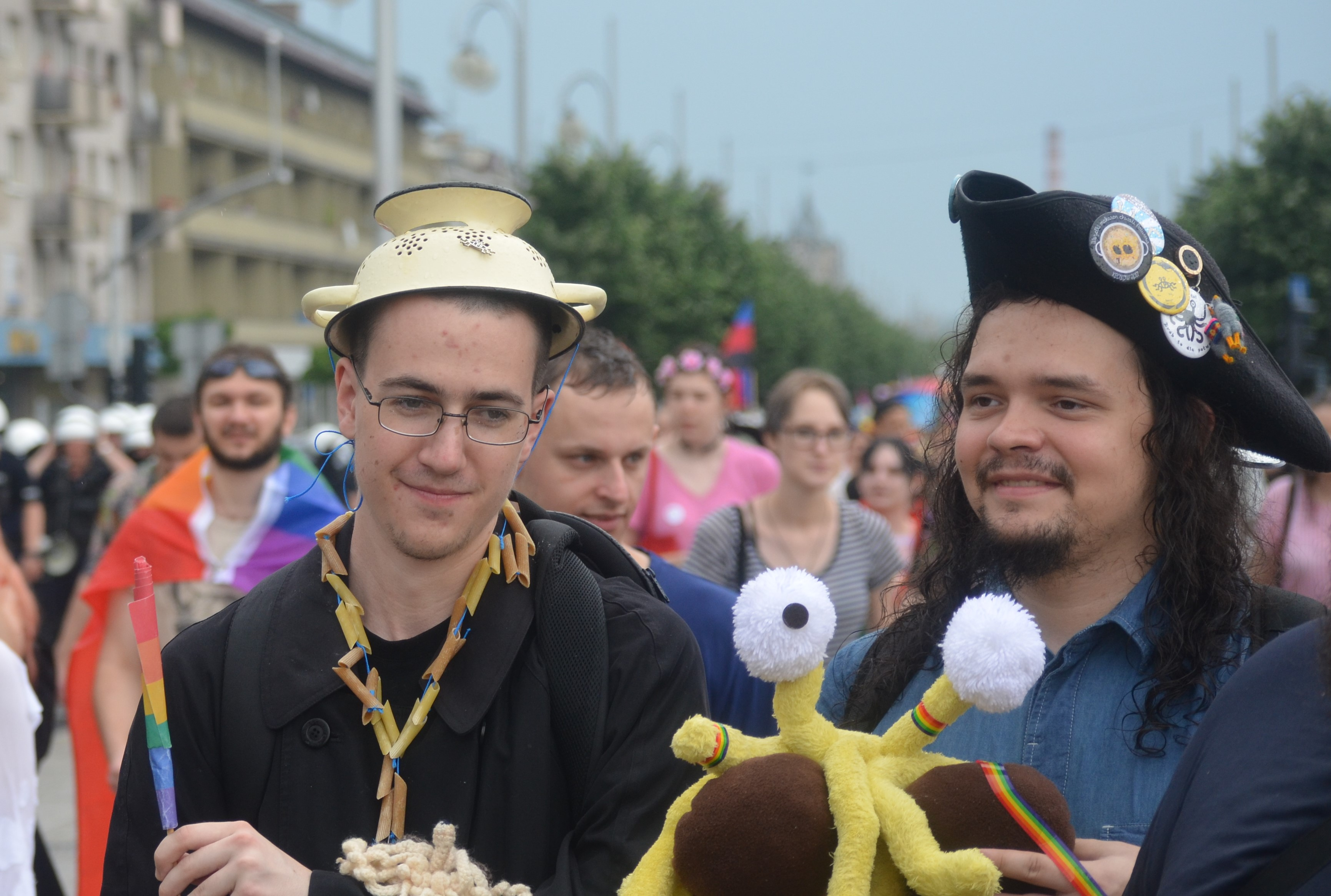 Equality March 2019 in Częstochowa